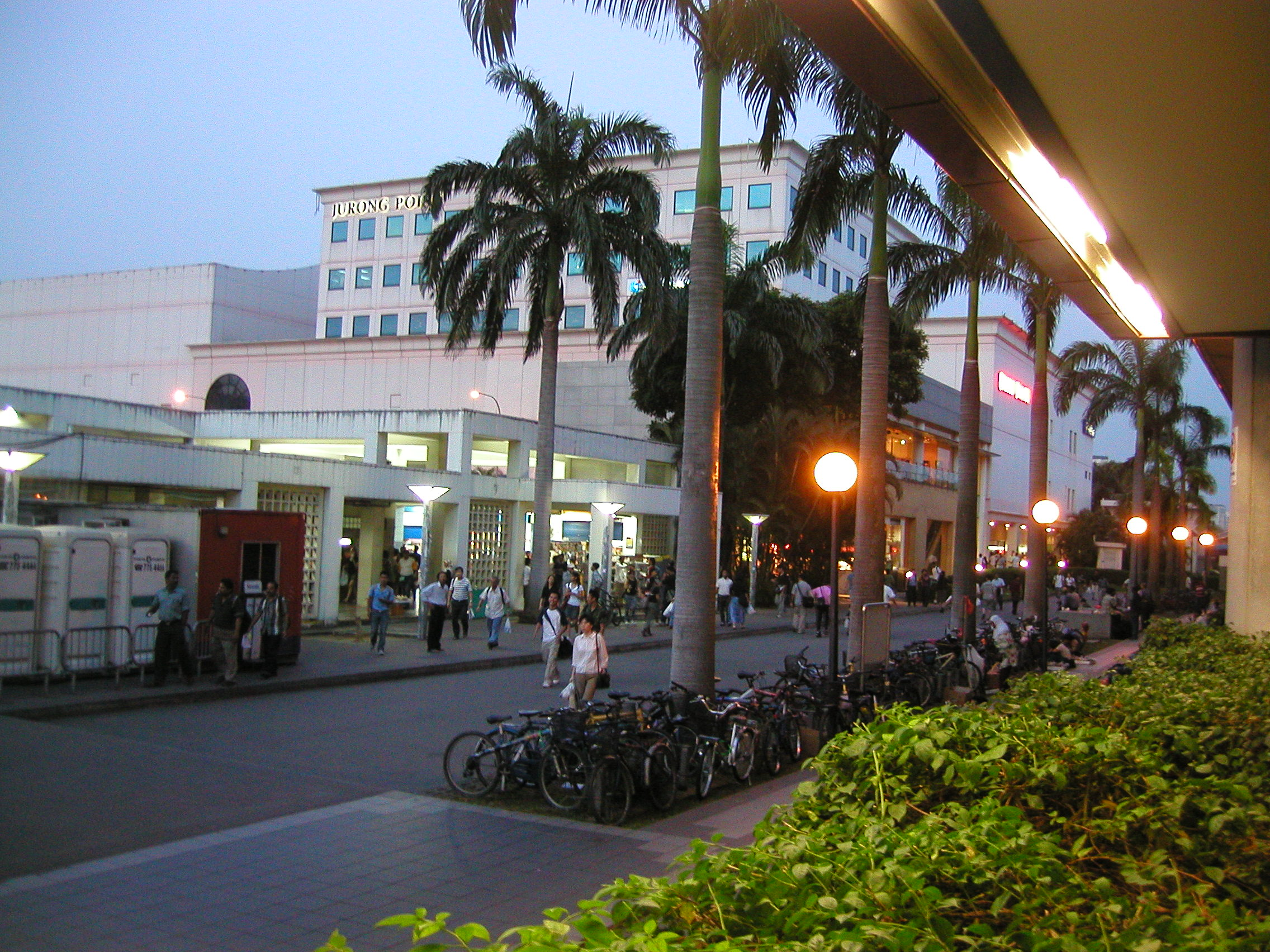 The old building of Jurong Point, a suburban shopping mall in Jurong West, Singapore. Photograph taken using an Olympus C40Z, no flash, f=8mm, F/2.8, 1/13sec ISO400, pattern metering, exposure compensation 0EV.